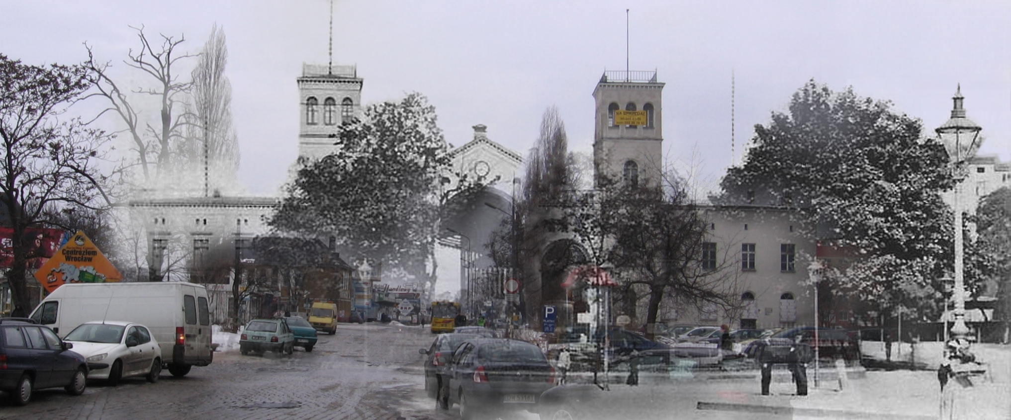 Wrocław, Poland - Märkischer Bahnhof in 1902 and in 2006 copy of postcard of C.Schröter Verlag, Breslau (Image: ) and photography made in 2006 by user:Julo. inspired by